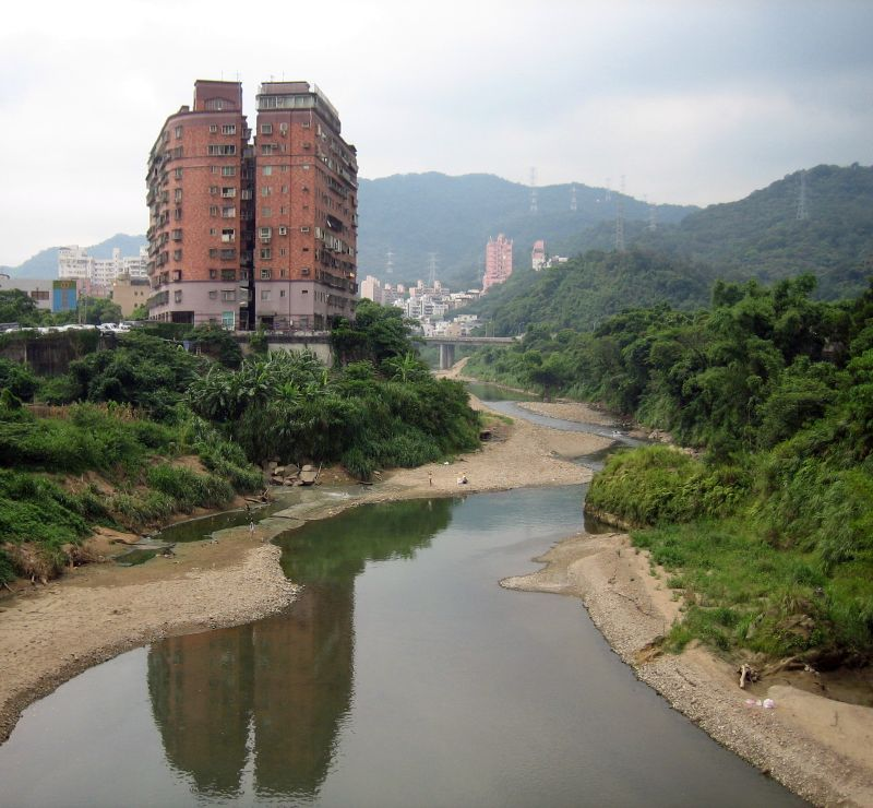 view from bridge near Old Market Street in Shenkeng.